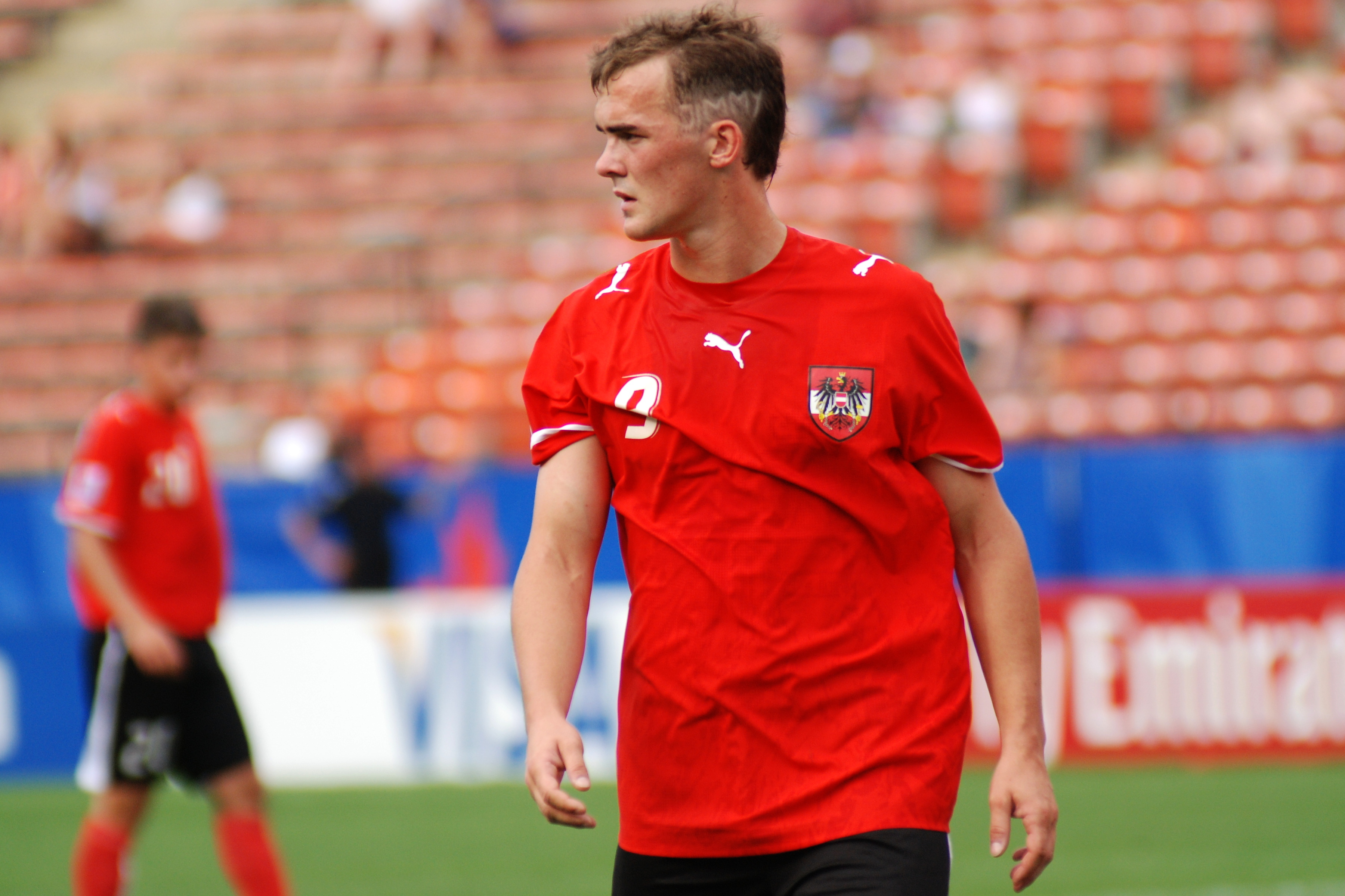 Austrian striker Erwin Hoffer at the 2007 U-20 World Cup semifinal match between Austria and the Czech Republic, played in Commonwealth Stadium, Edmonton, Alberta, Canada. His nickname, "Jimmy", is shaved into the side of his head.